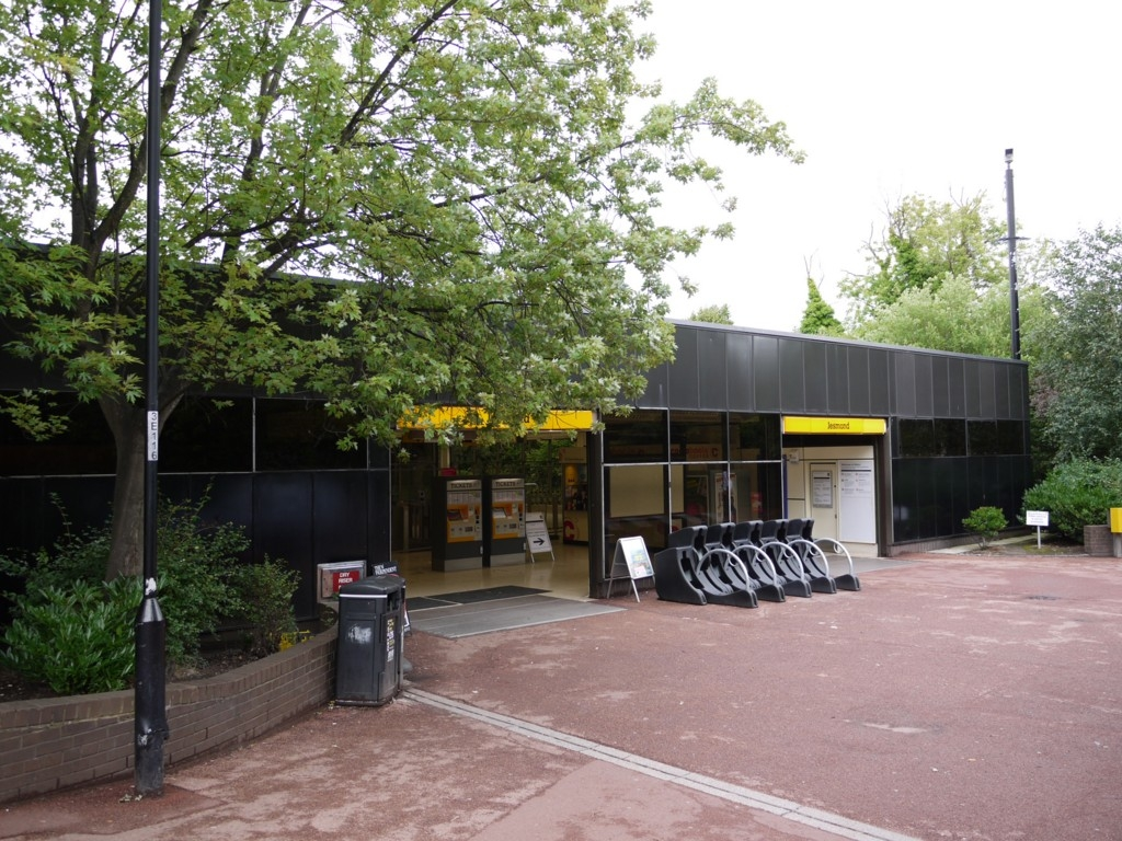 Jesmond station on the Tyne and Wear Metro. The south west side of the station building (the entrance/exit).